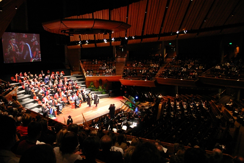 Victoria University of Wellington science faculty graduation ceremony at the Wellington Convention Centre, Wellington, New Zealand. Author: Dean S. Pemberton Image taken: May 2005